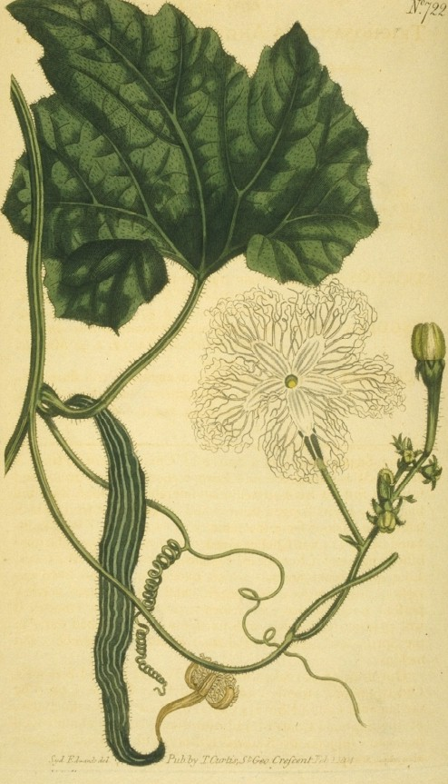 Trichosanthes anguina, now known as Trichosanthes cucumerina var anguina